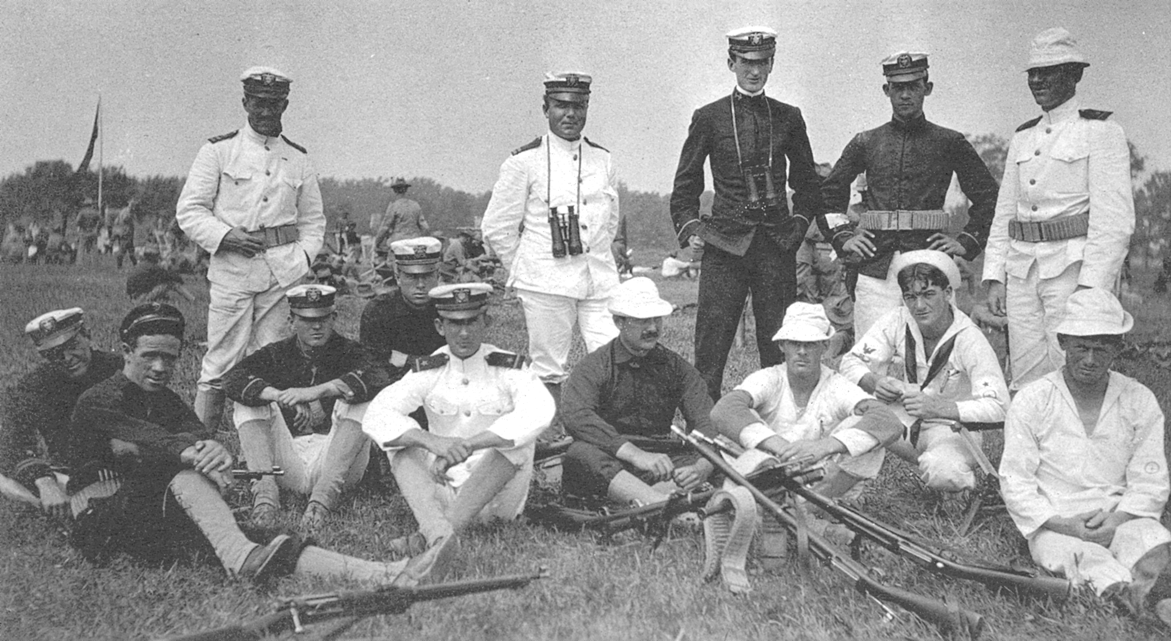 (from en.wp) LTJG Harris Laning, captain of the Navy Rifle Team, depicted here competing for the 1907 National Trophy. Official U.S. Navy photo from Naval Historical Collection, scanned from: Laning, Harris (1999), An Admiral's Yarn, Newport, RI: Naval War College Press.